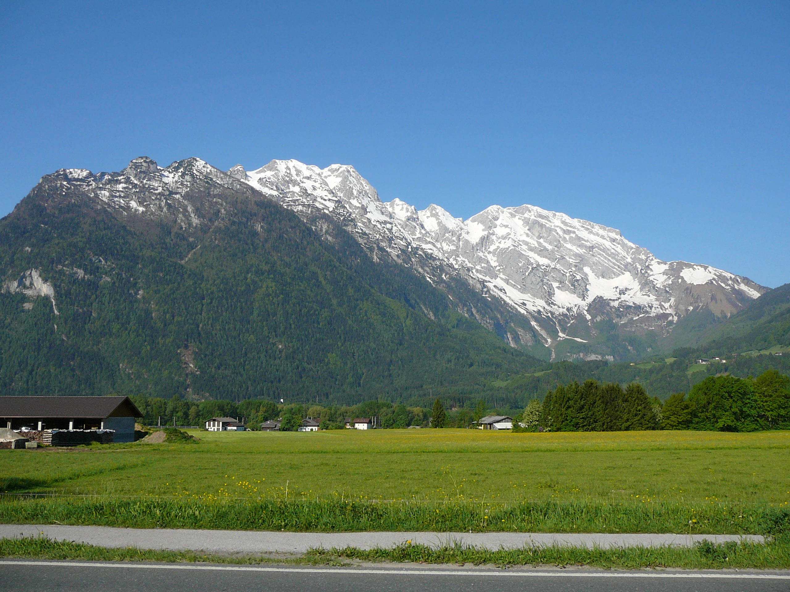 Mountain Göll from Kuchl-Kellau, Austria